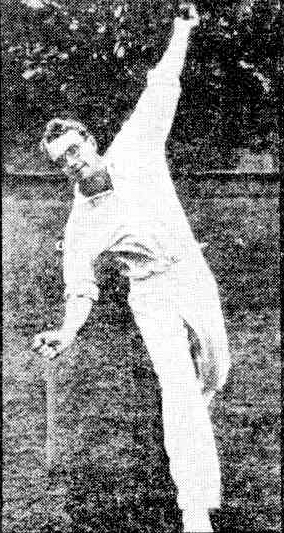 South African Test cricketer Norman "Tufty" Mann in photographed published in Perth Daily News on 8 October 1949 in advance of South Africa-Australia Test series